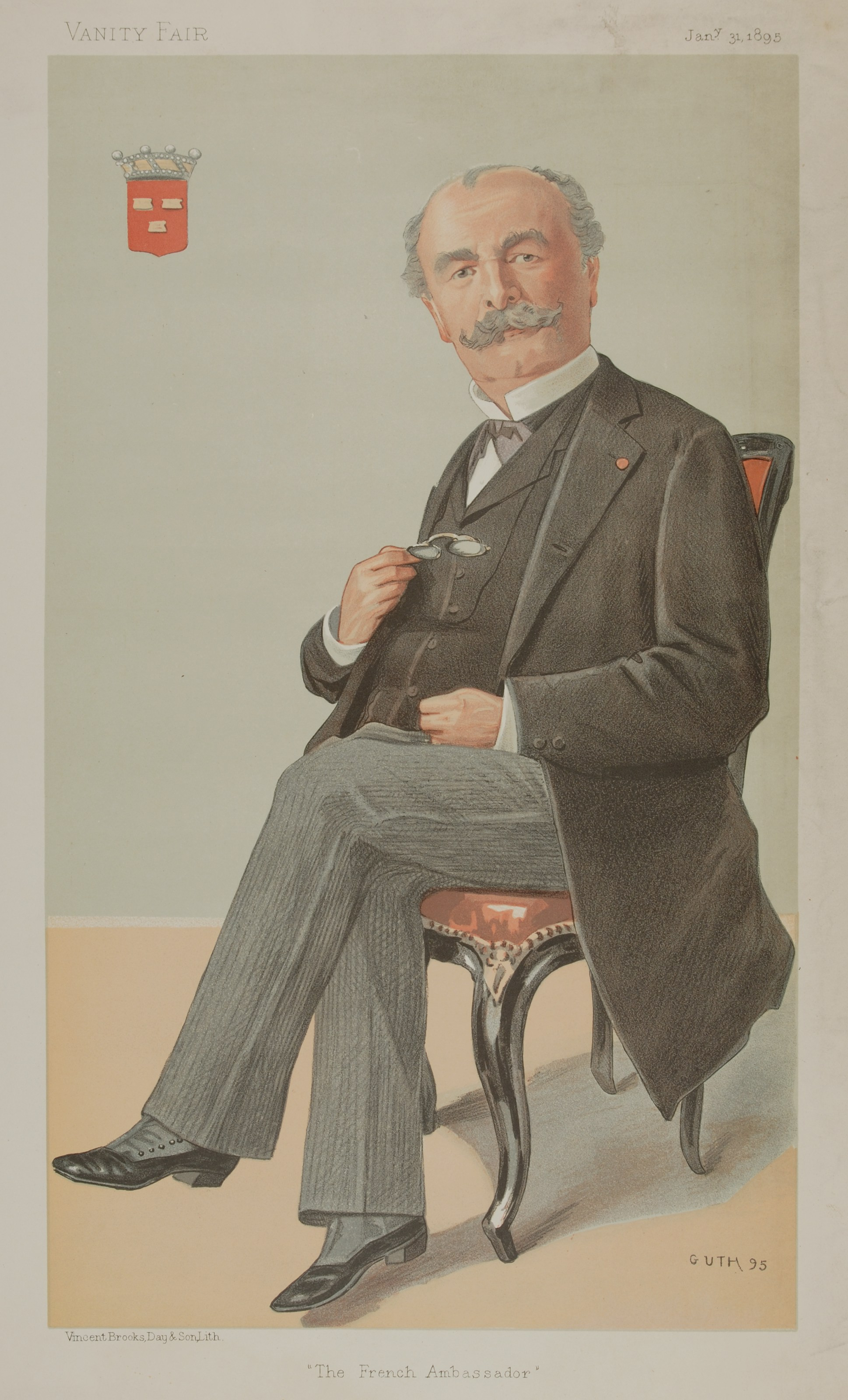 Men of the Day No. 610: Caricature of The Baron Chaudron de Courcel, French Ambassador to the United Kingdom. Caption read "The French Ambassador".